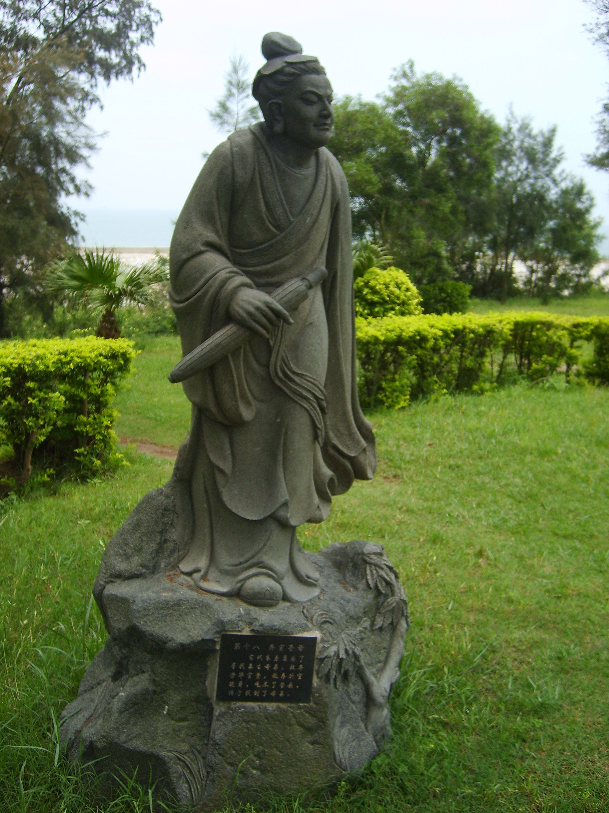 The Twenty-four Filial Exemplars - No. 18